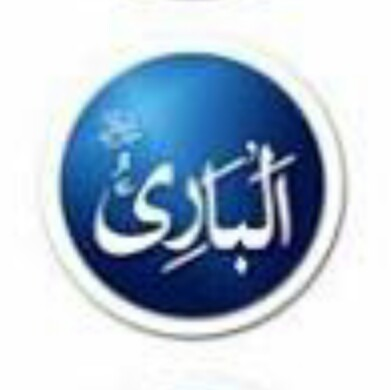 Al-Bari / Al Bari / The Evolver / The Fashioner / The Designer is a name of God in Islam, Is a name of Allah.